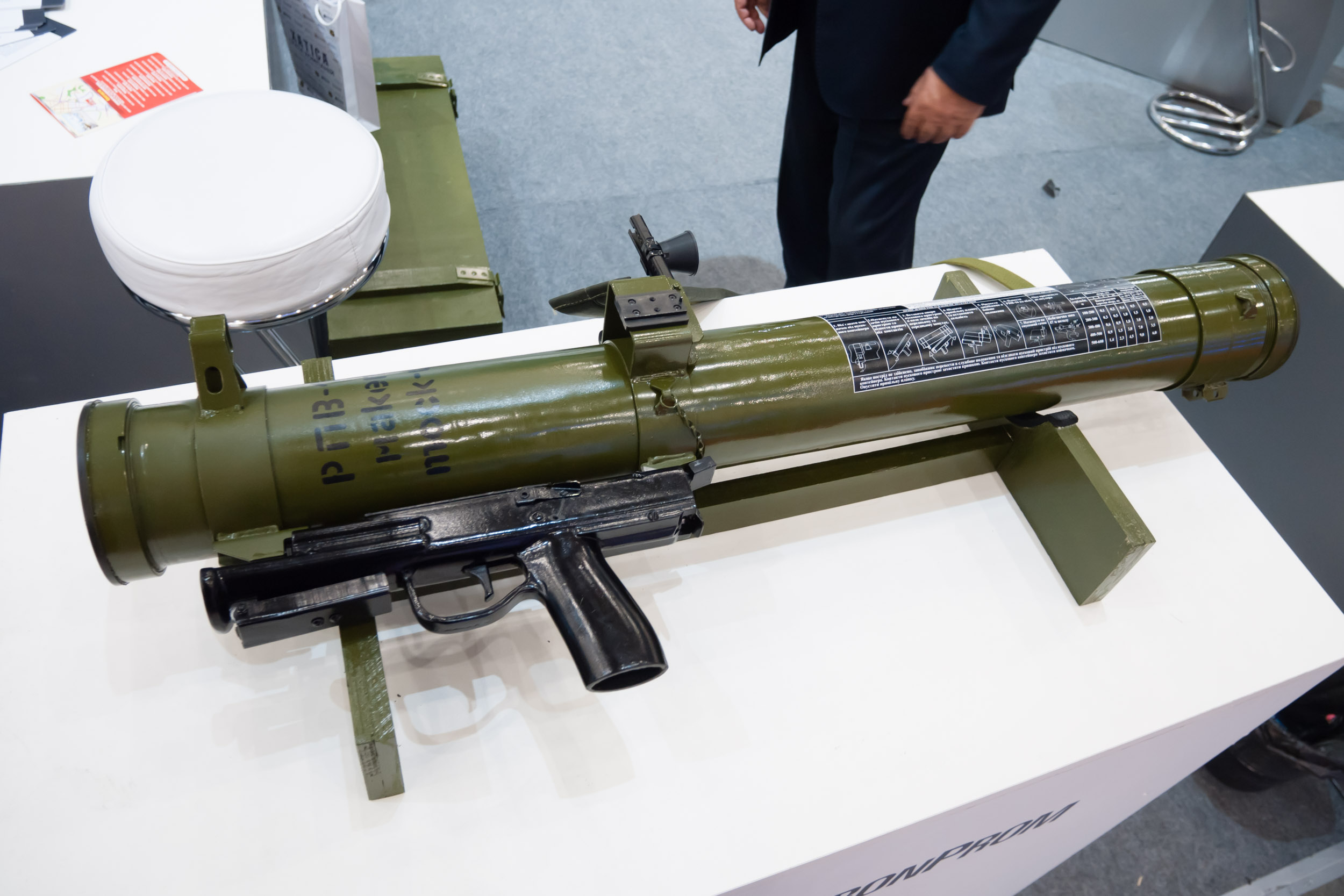 RPV-16 thermobaric rocket launcher (Ukraine). 'Zbroya ta Bezpeka' military fair, Kyiv, Ukraine, 2019